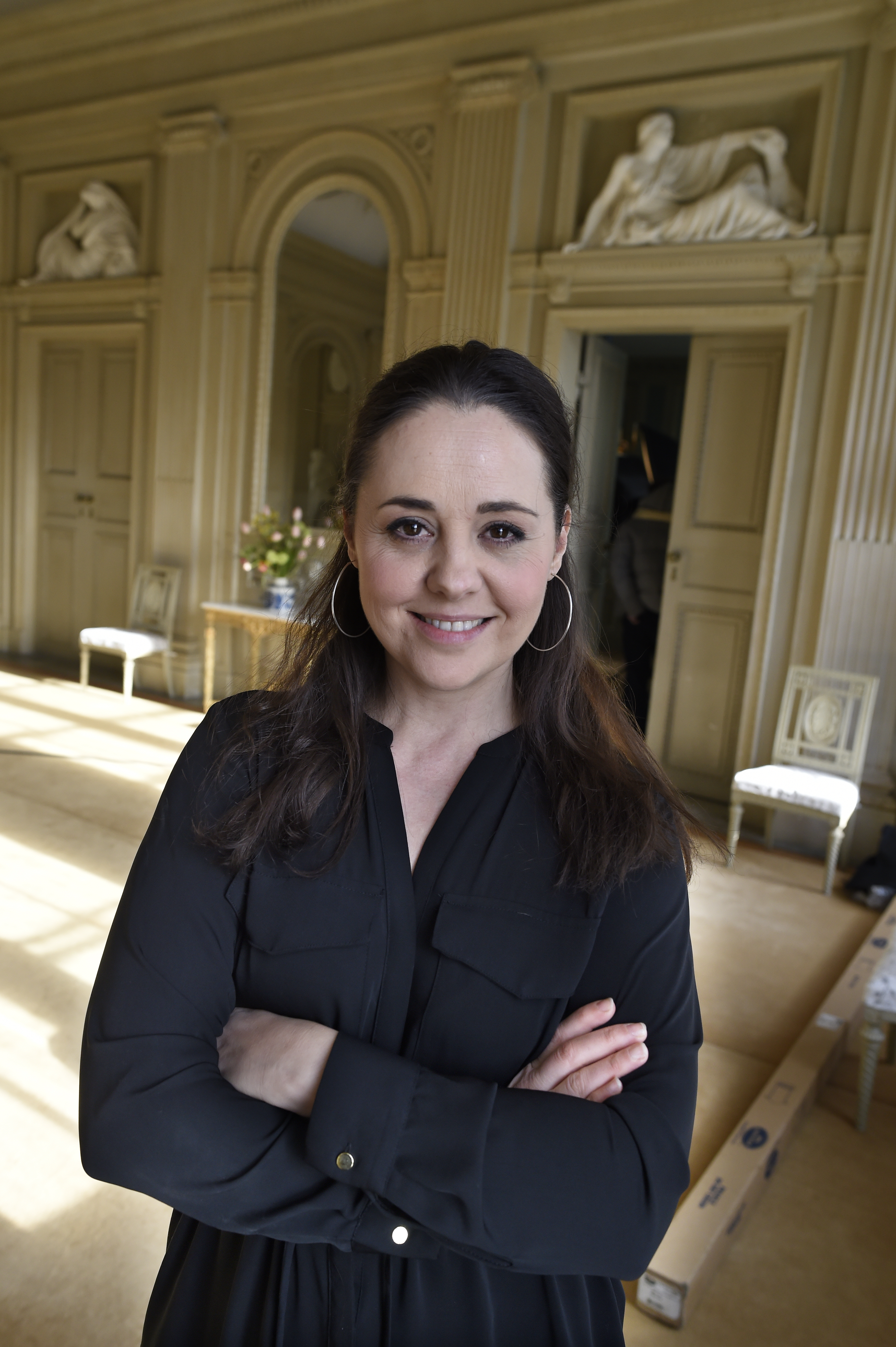 Skådespelaren och musikalartisten Nina Hammarklev, tidigare Lundseie, 2017